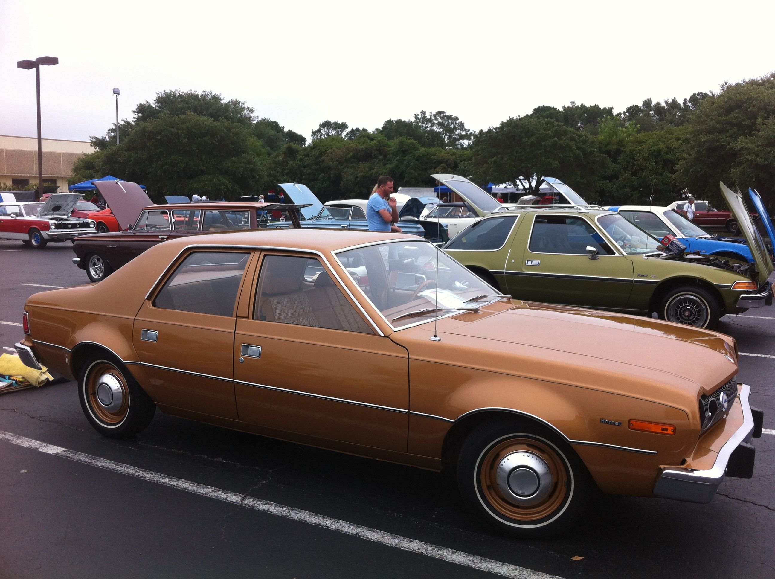 1974 AMC Hornet, a compact-sized 4-door sedan - base model - made by American Motors Corporation. Photographed at the 2014 American Motors Owners Convention held in North Charleston, NC